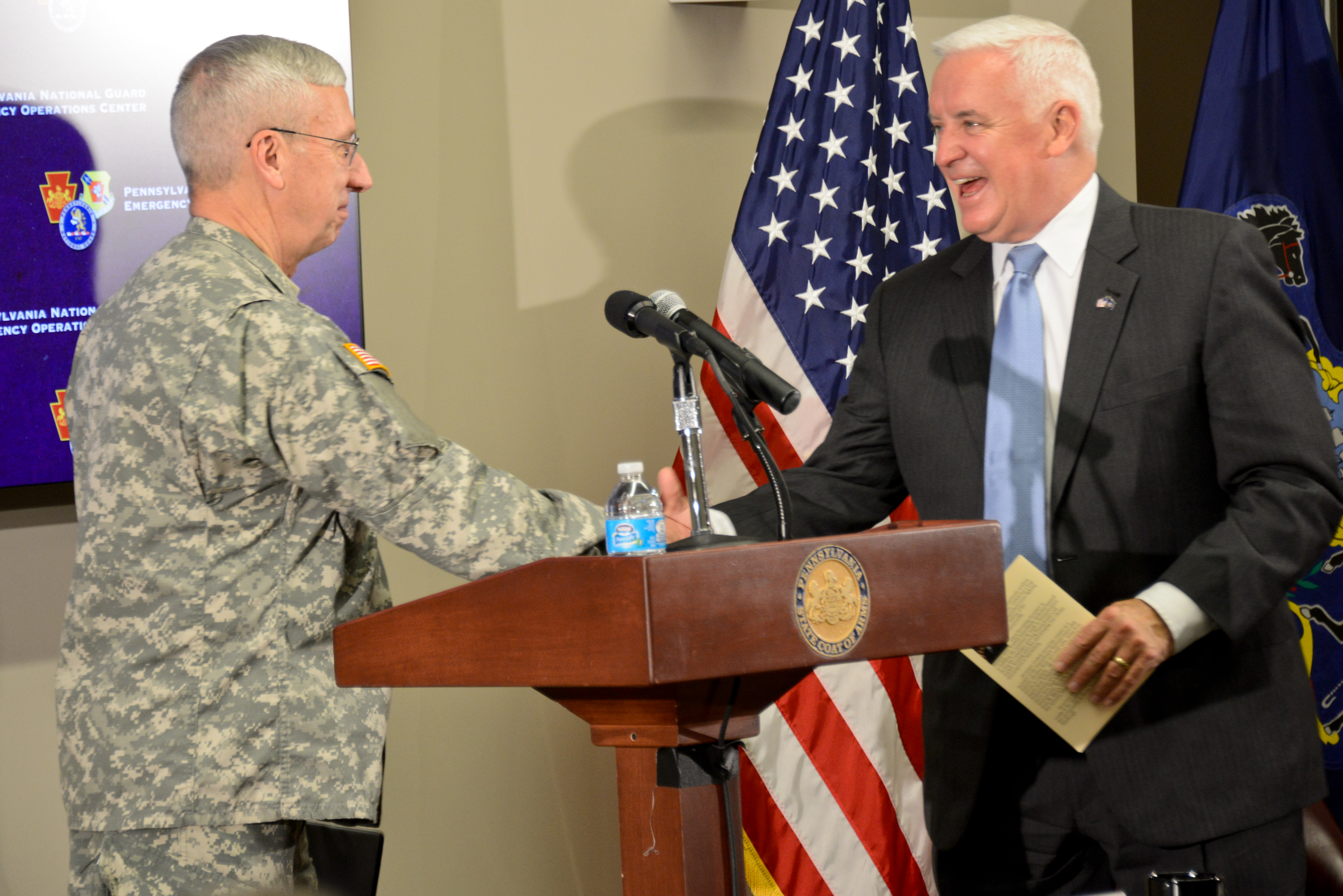 Farewell Visit of Governor Tom Corbett: FORT INDIANTOWN GAP, Pa. -- Pennsylvania Governor Tom Corbett and Maj. Gen. Wesley Craig, state adjutant general, cut the ribbon on the Pennsylvania National Guard's new Joint Emergency Operations Center, Jan. 9, 2015. The $1.5 million facility boasts many enhanced capabilities for the Pennsylvania National Guard to efficiently respond, when requested, to natural disaster and civil strife. During state emergencies, the National Guard becomes an asset of the Pennsylvania Emergency Management Agency, or PEMA. PEMA assigns missions to the National Guard, which will manage those operations at the new facility. (Photo by Tom Cherry/Released)